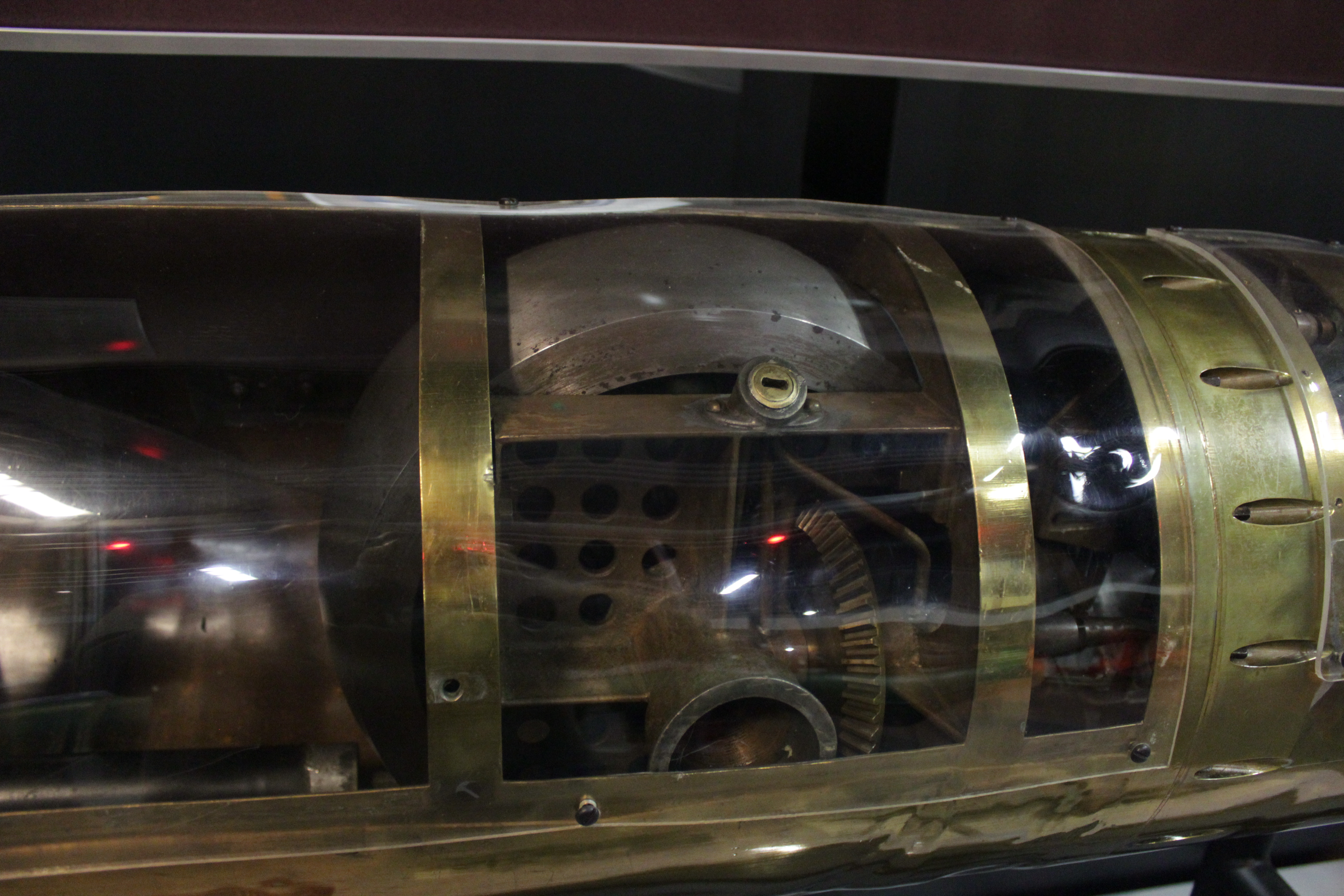 The 130 lb flywheel on the Howell torpedo.